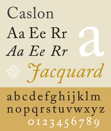 Specimen of the typeface Caslon (Adobe). Jim Hood